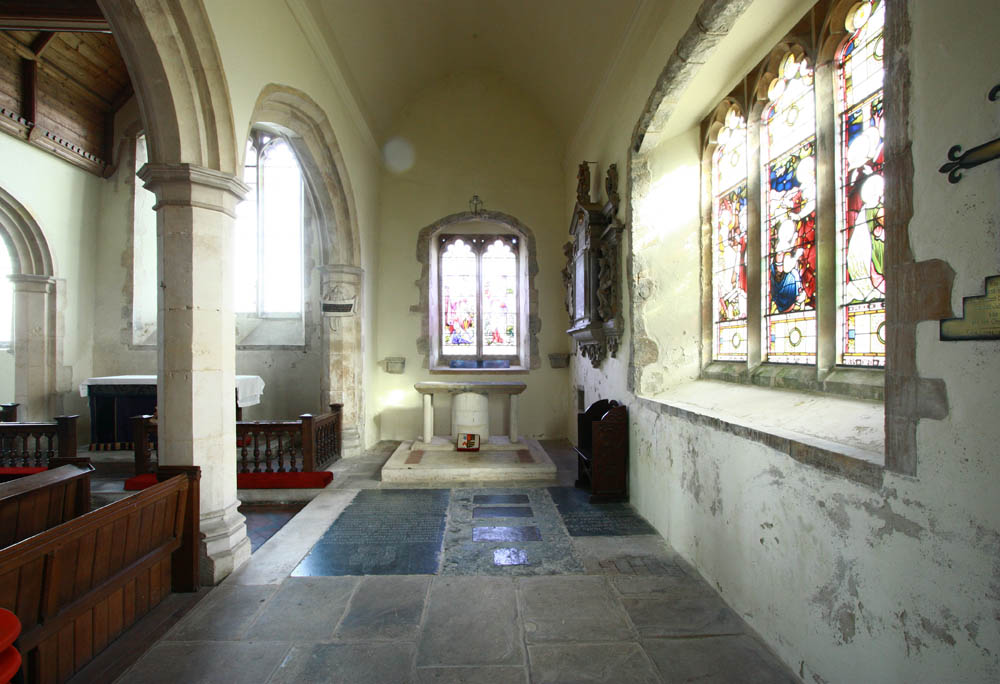 St James, Elmsted, Kent - South aisle